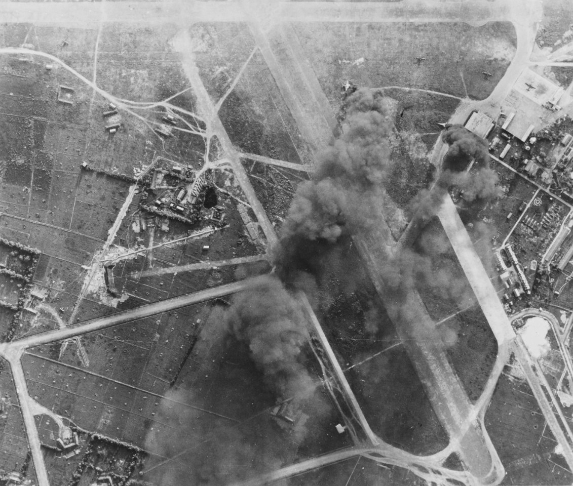 Japanese aircraft and installations burning at Tan Son Nhut airfield, near Saigon, during strikes by USS WASP aircraft, 12 January 1945